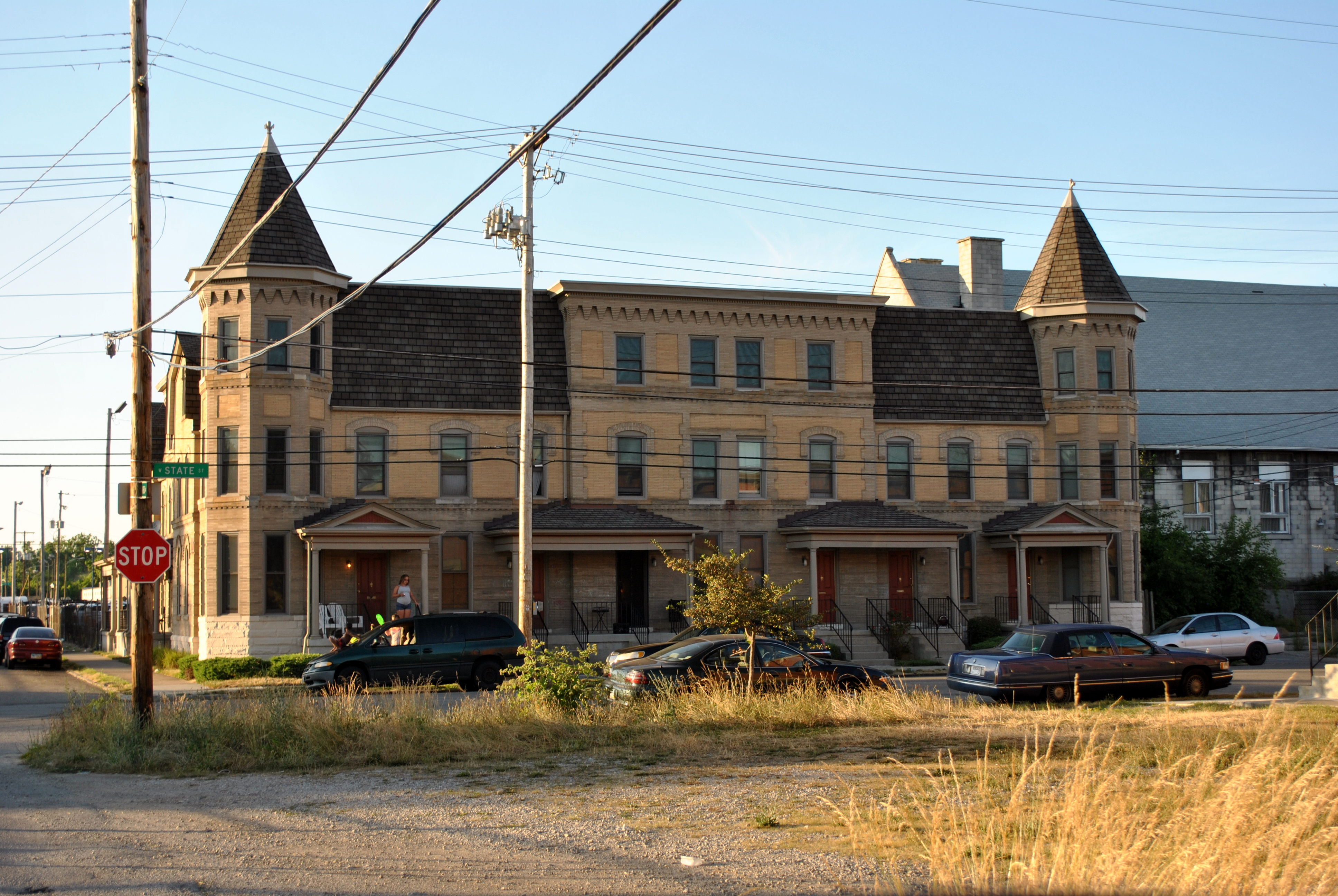 Listed on the NRHP. Located in Franklinton, Columbus, Ohio